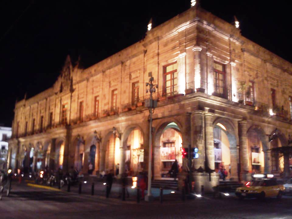 A view ("landscape") of the Guadalajara City Hall. The photograph was shot by using a Sony Xperia J cellular phone, circa 03/09/2016, from the Southeast of the building.